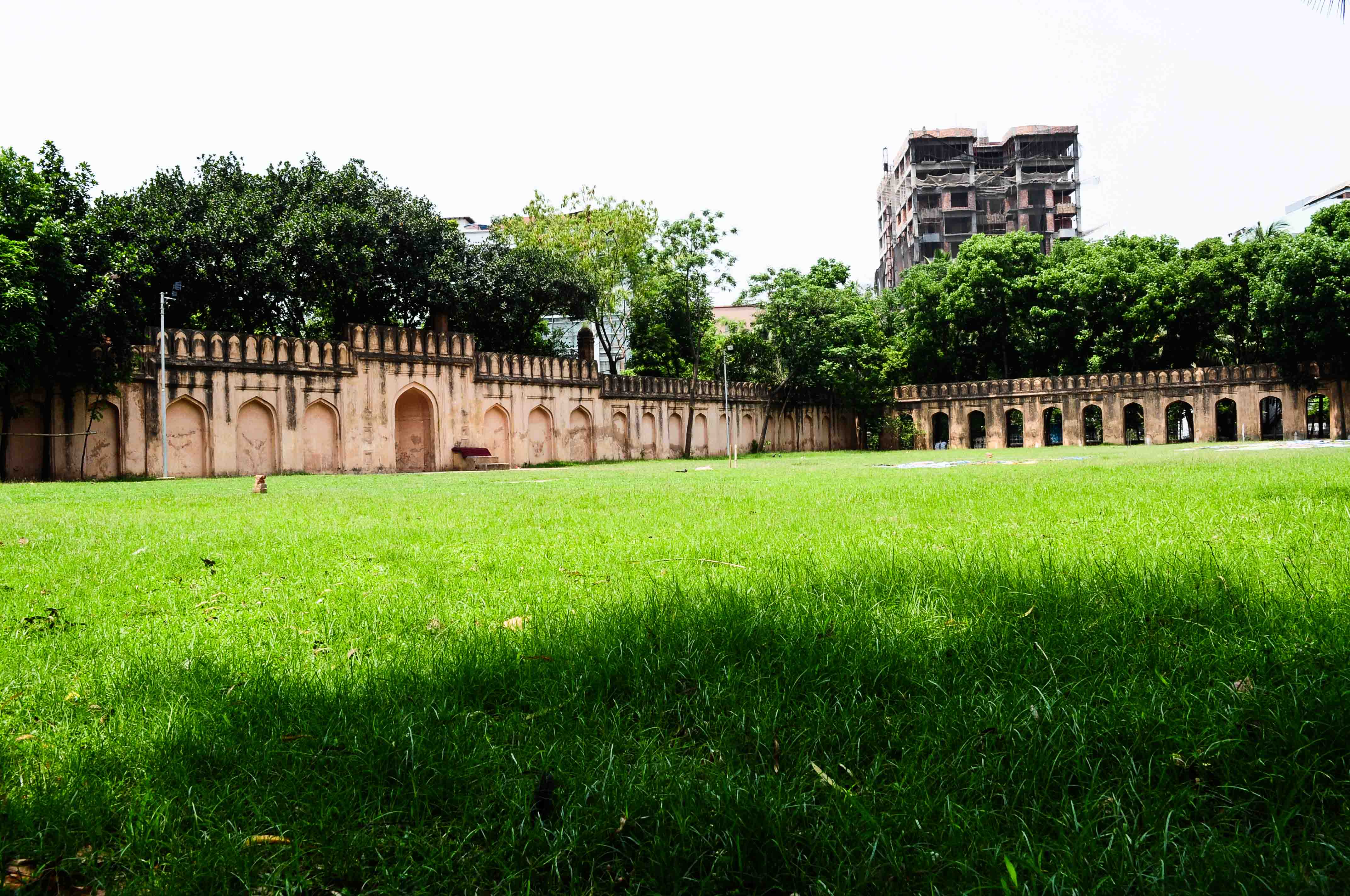 Mughol Eidgah, Dhanmondi district, Old Dhaka - Bangladesh.